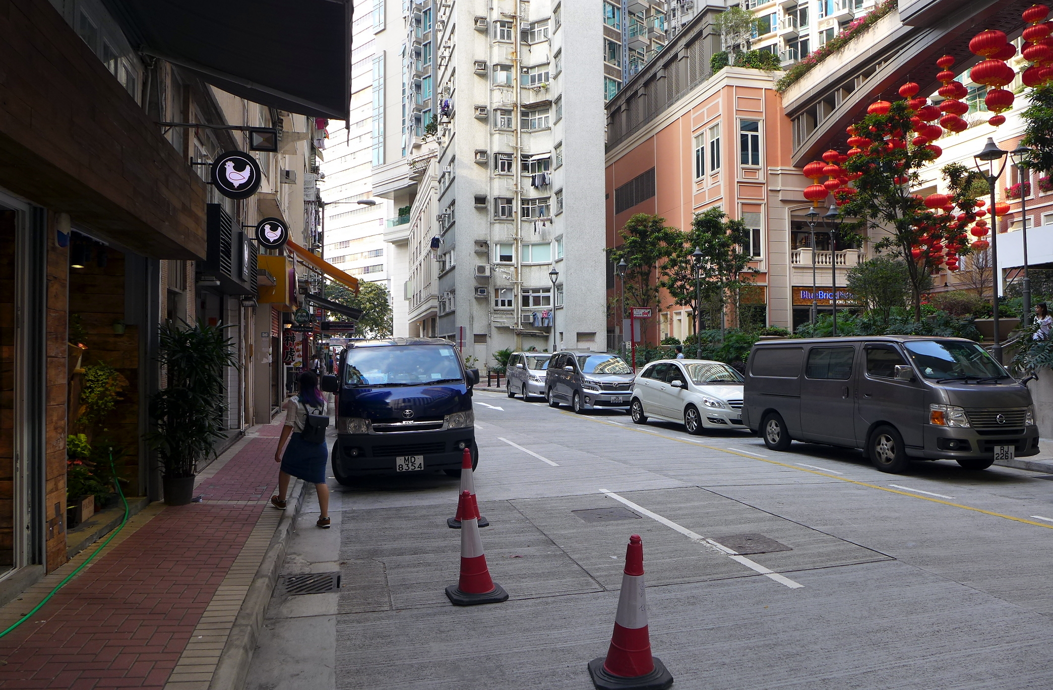 Amoy Street